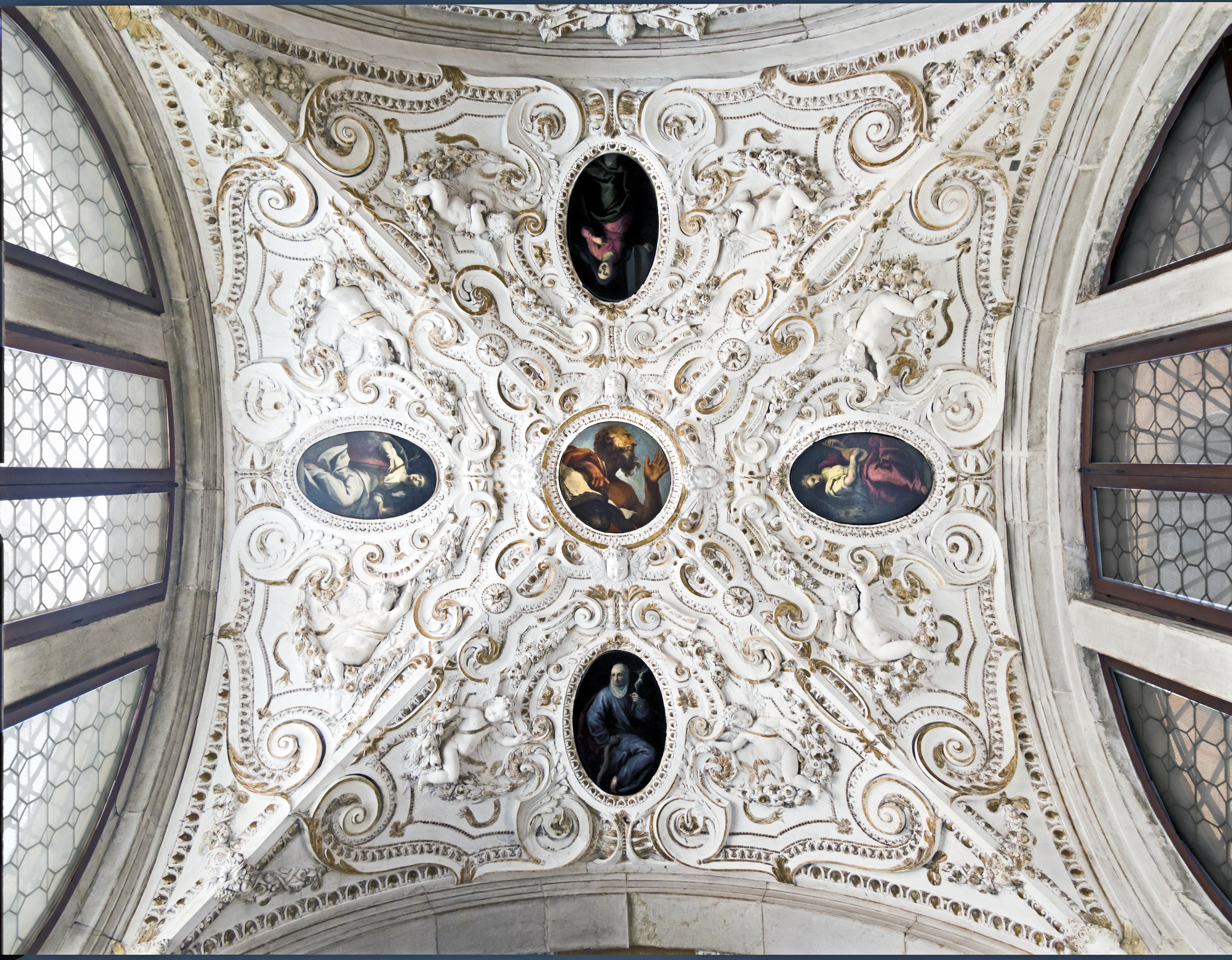 Santi Giovanni e Paolo in Venice - the chapel of Our Lady of Peace. The ceiling: stucco are the work of Ottaviano Ridolfi, the four medallions are painted by Palma il Giovane, and represents the virtues of St. Hyacinth.